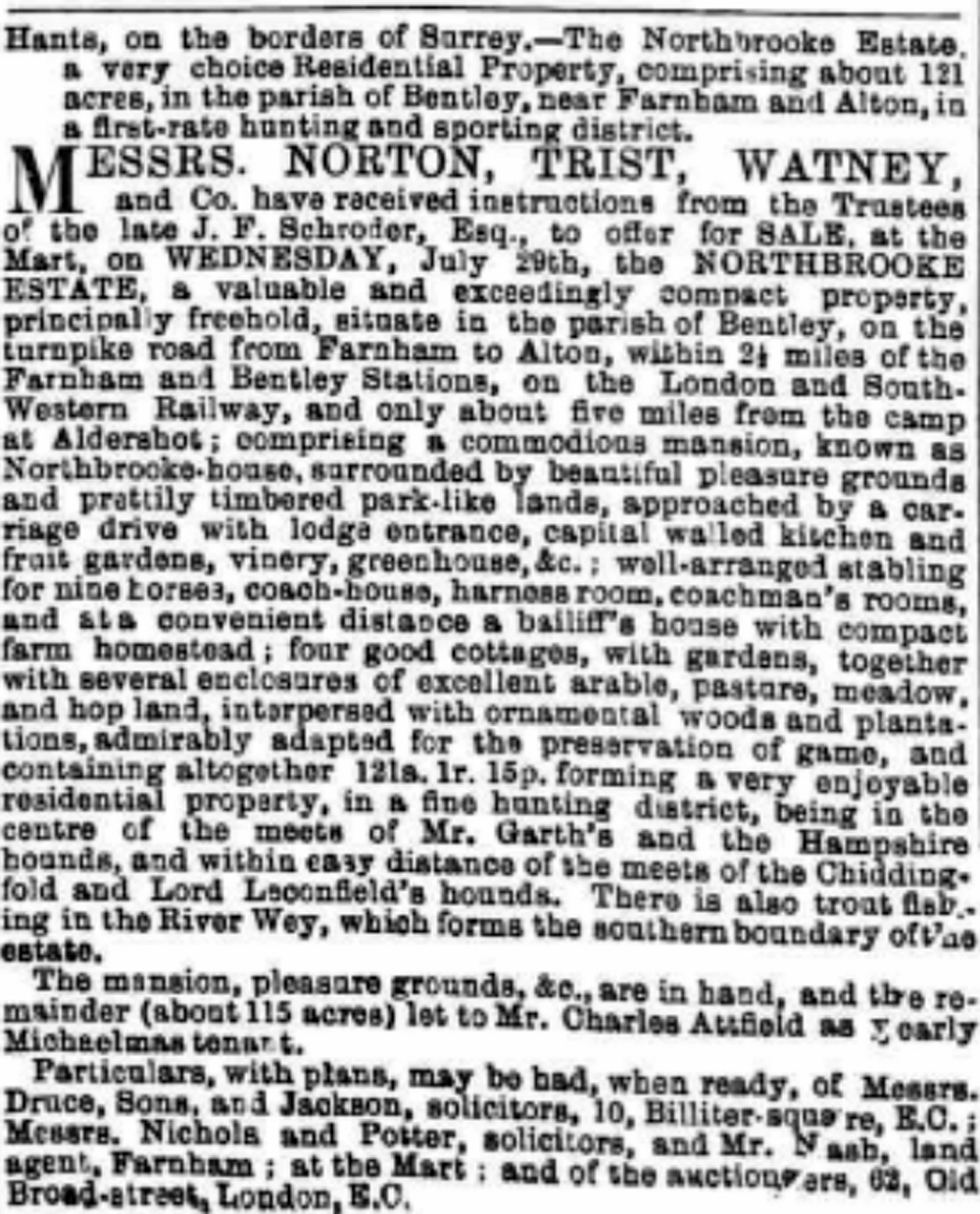 Sale notice of Northbrook Park, Farnham, Surrey, 1868